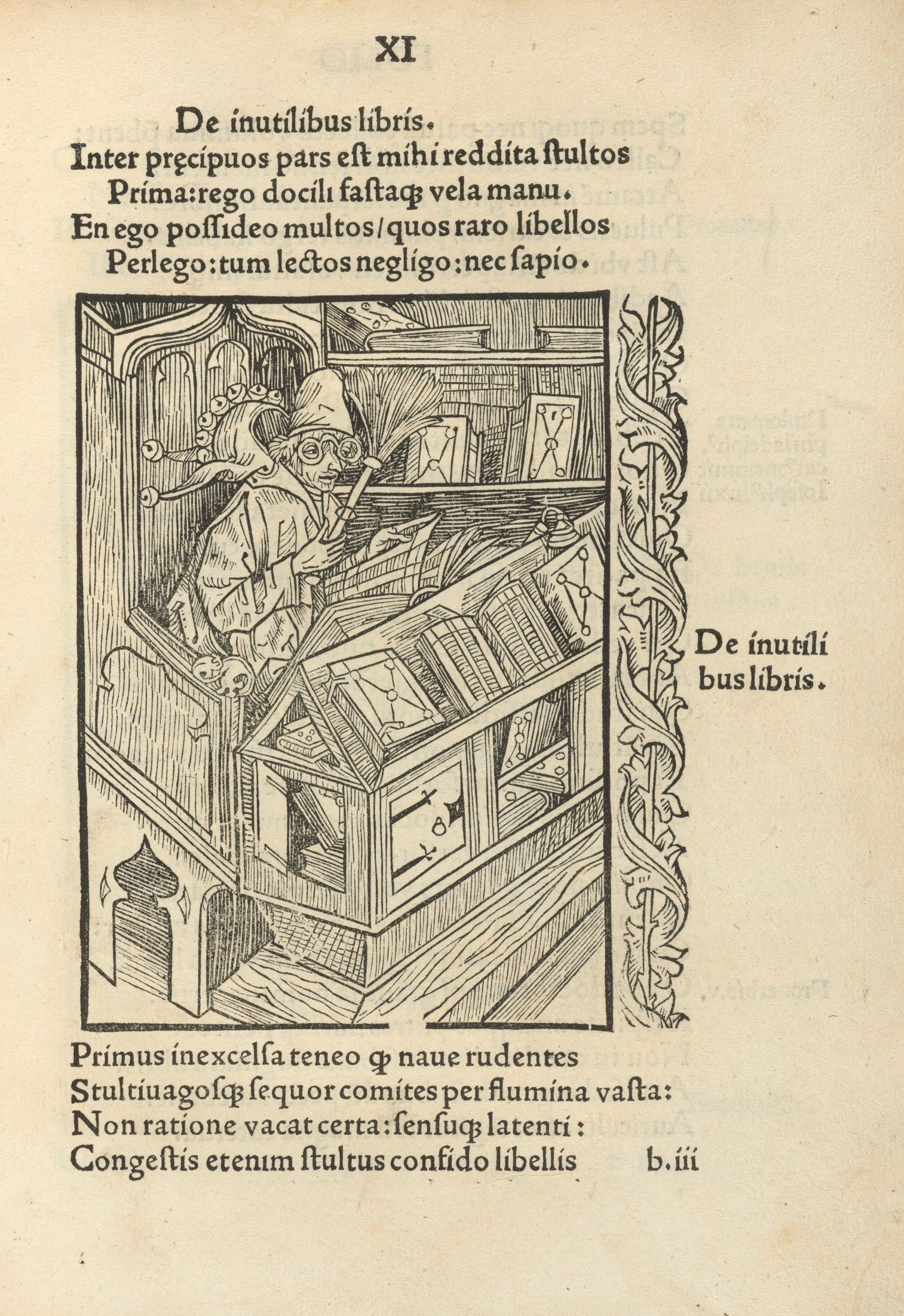 "On useless books." Page from Stultifera nauis [Ship of fools], 1497, by Sebastian Brant (1458-1521). WKR 1.1.12, Houghton Library, Harvard University